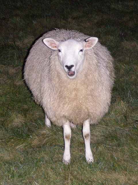 Nocturnal sheep, Avebury henge This sheep is one of a flock grazing in the north-eastern quadrant of the Avebury henge.